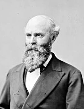 Joseph Powell, US Representative from Pennsylvania